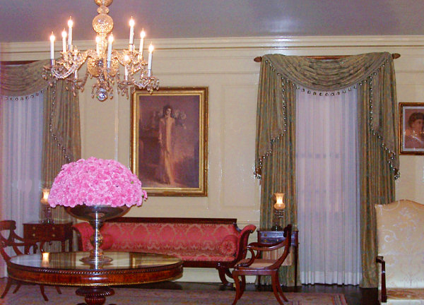 Vermeil Room at the White House under George W. Bush.